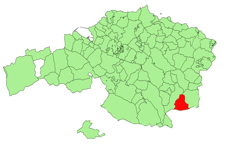 Atxondo municipality in the province of Biscay